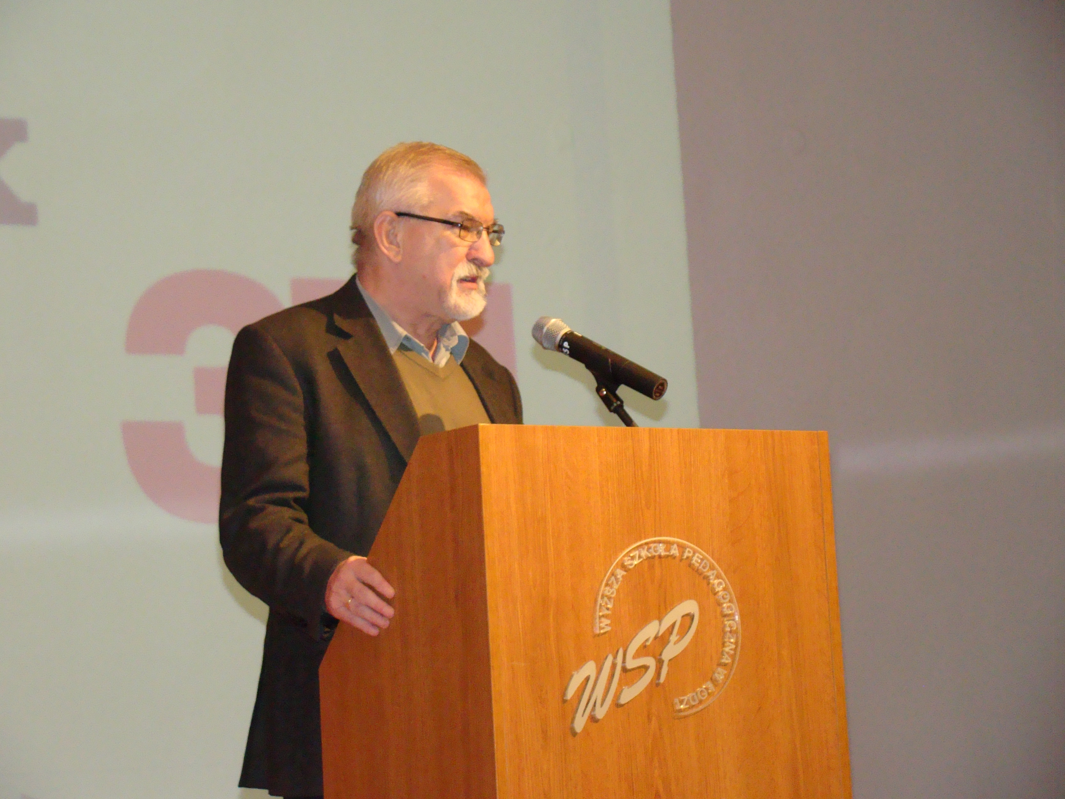 Stefan Kubów, Łódź 2012 (cooperation Kama Krawczyk, WSP Łódź)